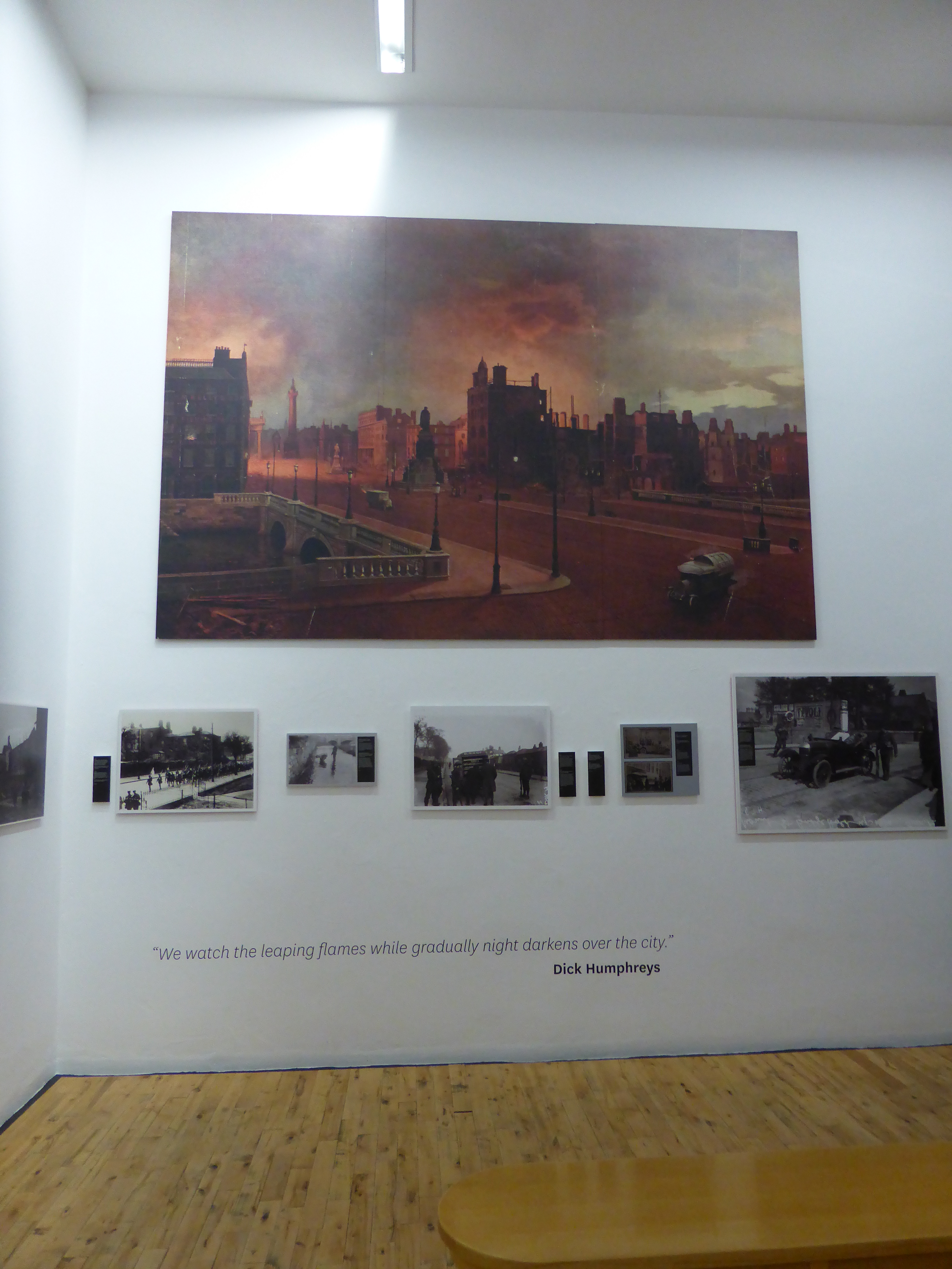 Extract from Dick Humphreys memoir of Easter rising, National Library Photographic Archive 1916 exhibition (October 1916)